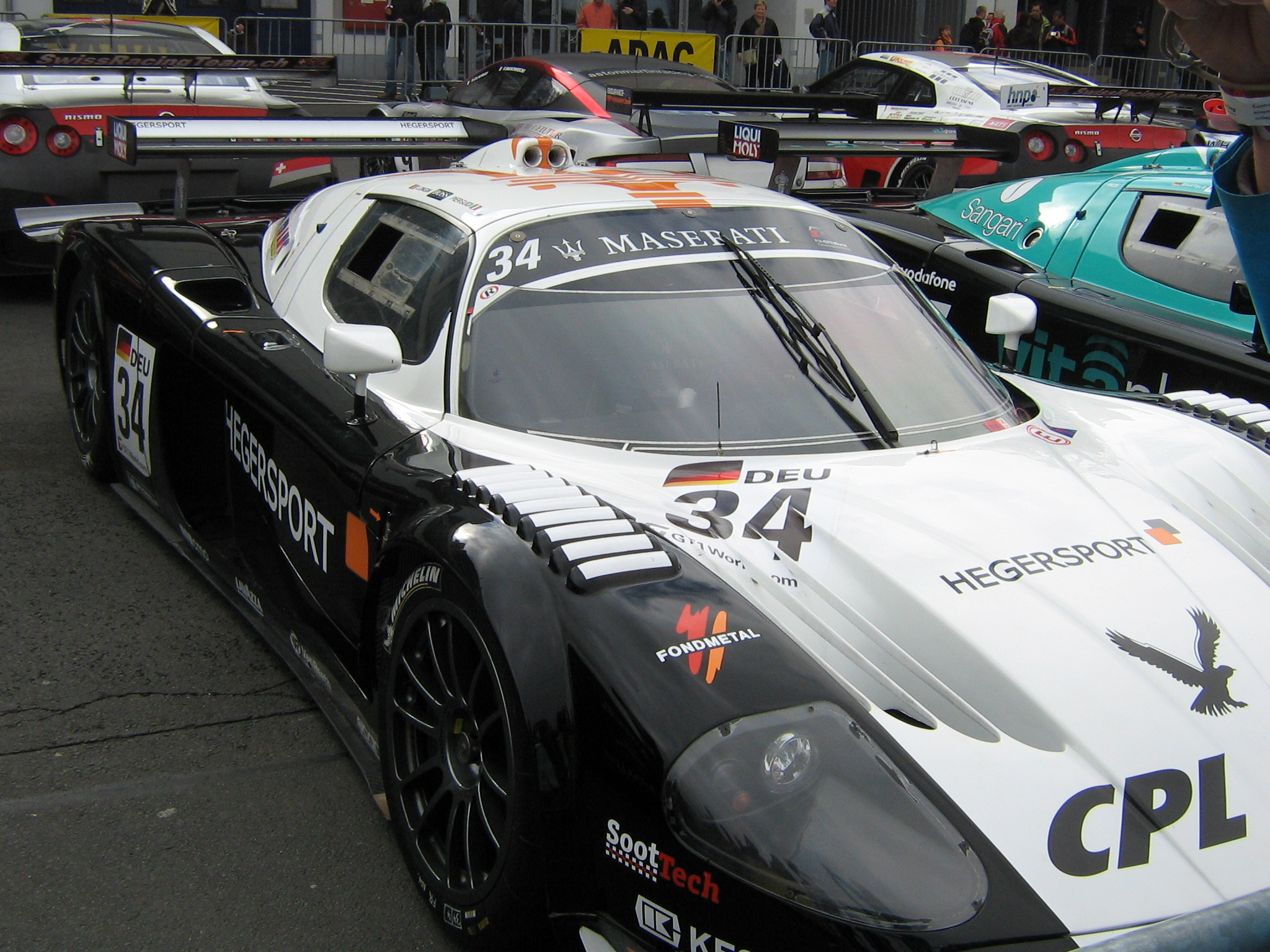 The Maserati Nr.34 from the FIA GT 1 World Championship